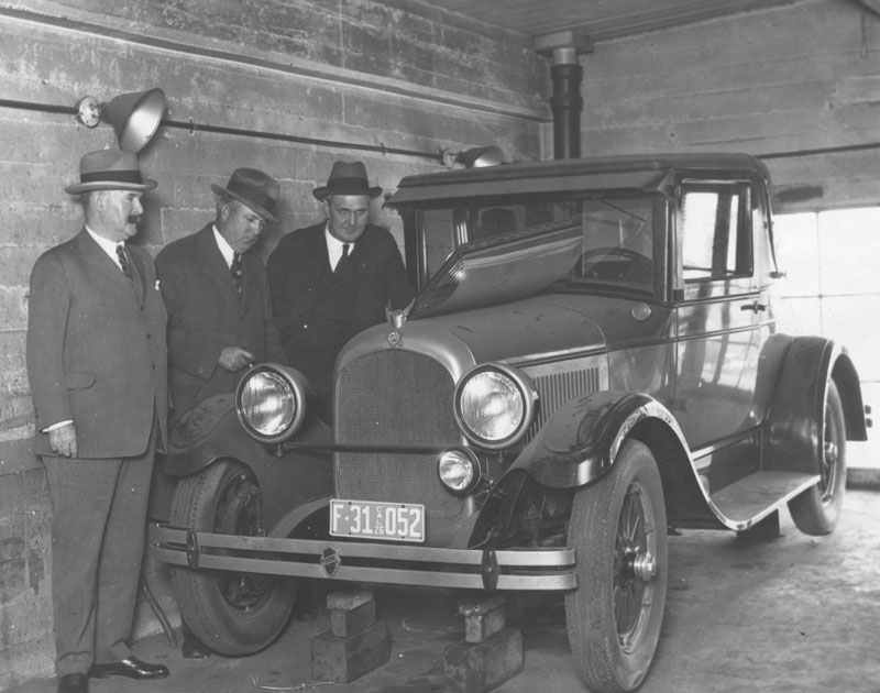 "Kenneth G. Ormiston's blue Chrysler sedan located in an Oakland, CA storage garage and searched for evidence."